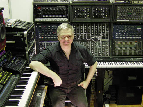 Mark Jenkins, London studio 2005 with the "El Monstruo" modular analog MIDI synthesizer featured in his book "Analog Synthesizers"